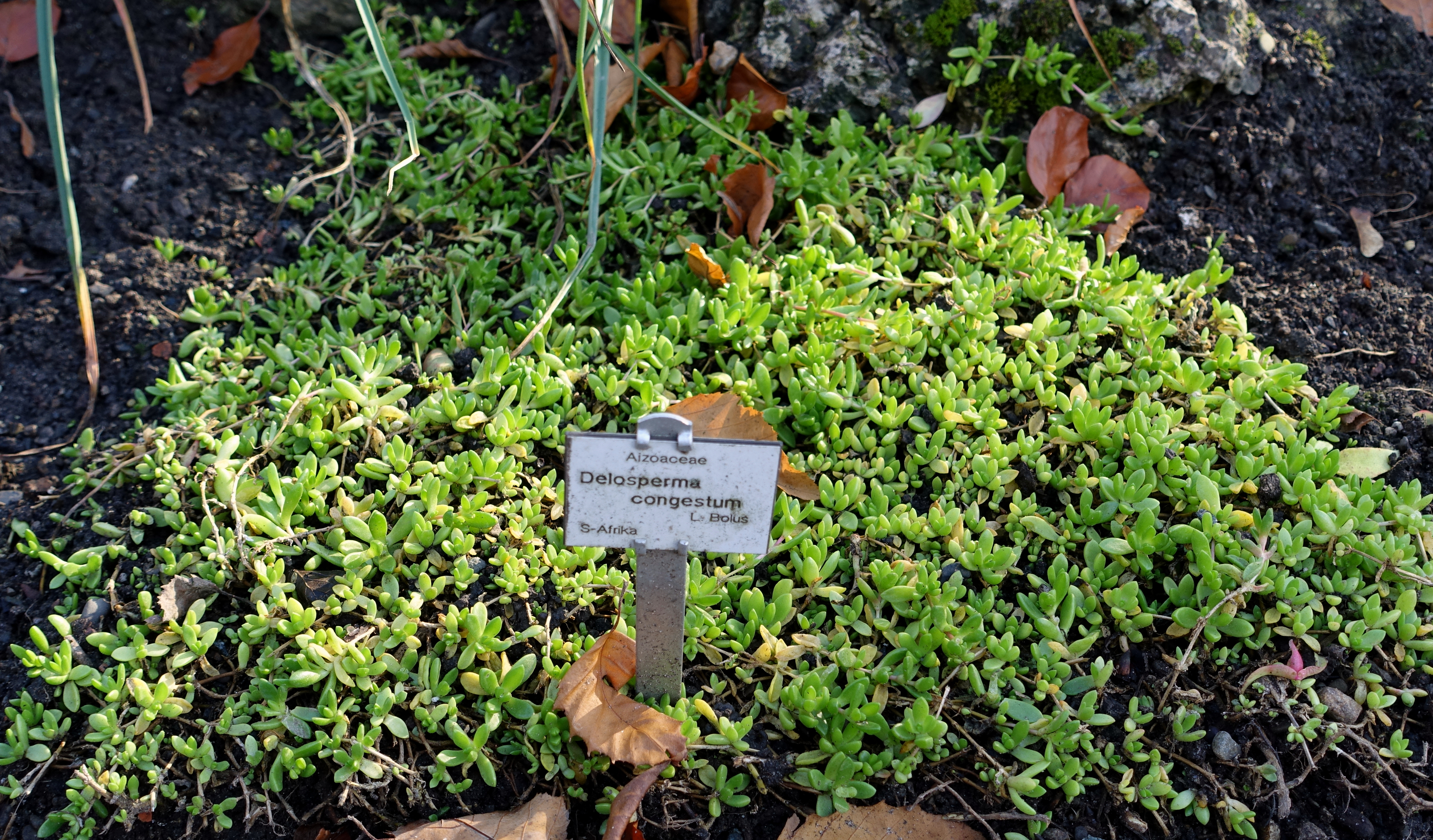 Botanical specimen in the Botanischer Garten Braunschweig - Braunschweig, Germany.